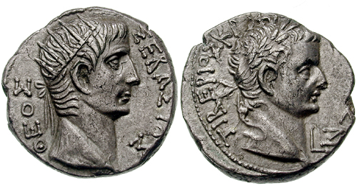 Tiberius AR Tetradrachm of Alexandria. ΤΙΒΕΡΙΟΣ ΚΑΙΣΡ ΣΕΒΑΣΤΟΣ, Laureate head right, LZ (year 7 = 20/21 AD) before ΘΕΟΣ ΣΕΒΑΣΤΟΣ, radiate head of Divus Augustus right. Milne 38, Koln 48